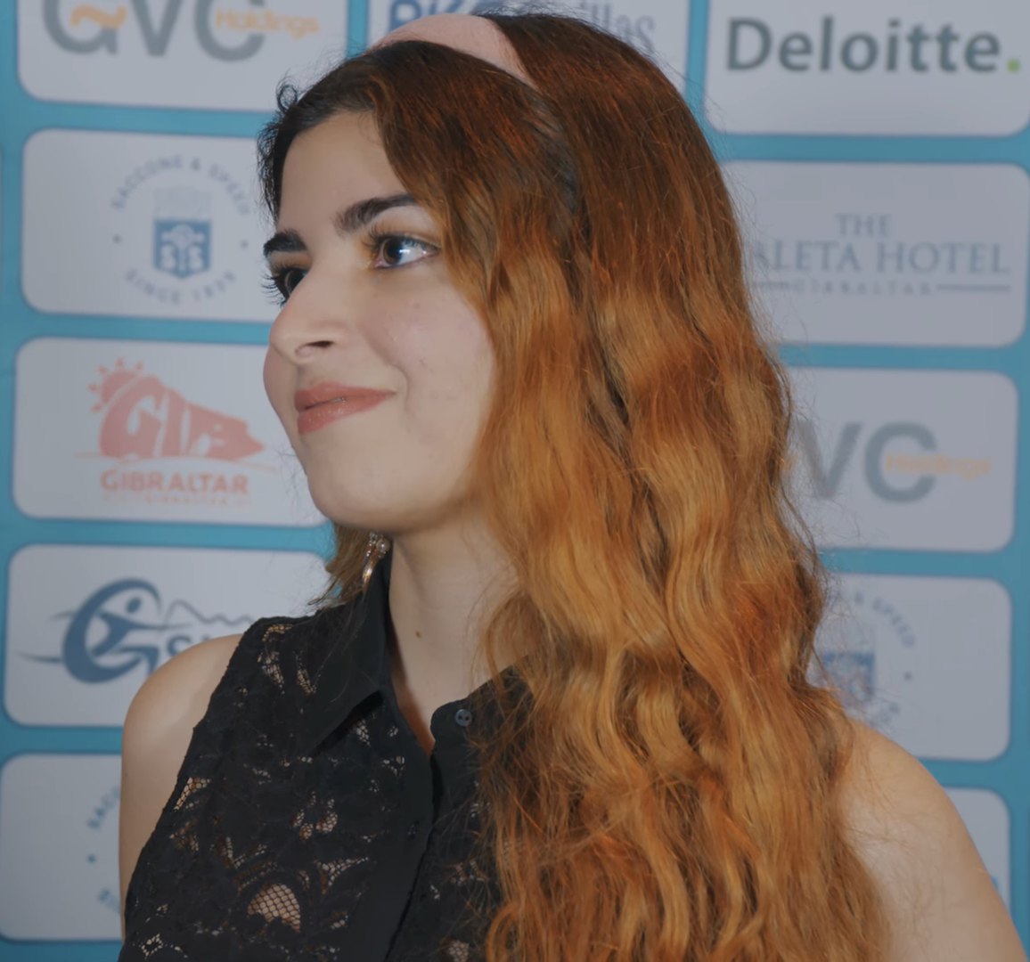 Dorsa Derakhshani being interviewed.